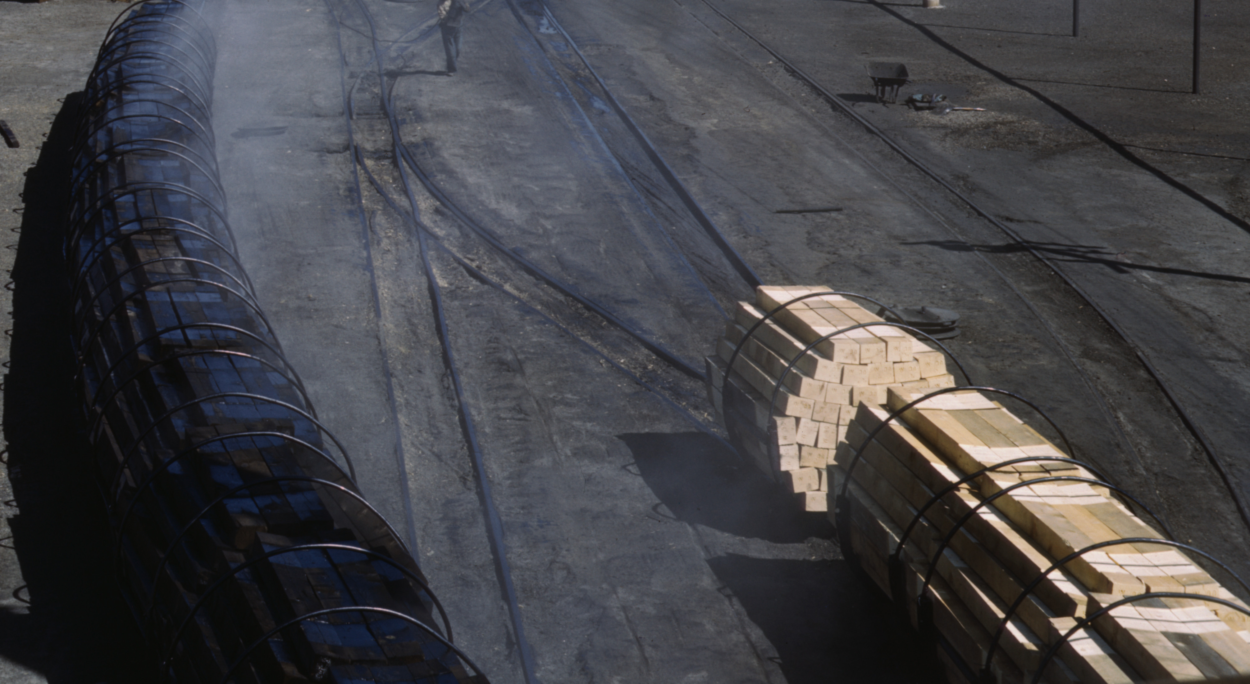 Title: At the Santa Fe R.R. tie plant, Albuquerque, N[ew] Mex[ico]. The ties made of pine and fir, are seasoned for eight months. The steaming black ties in the center have just come from the retort where they have been impregnated with creosote for eight hours. This plant has a capacity of 100,000 ties per month; is currently producing 80,000